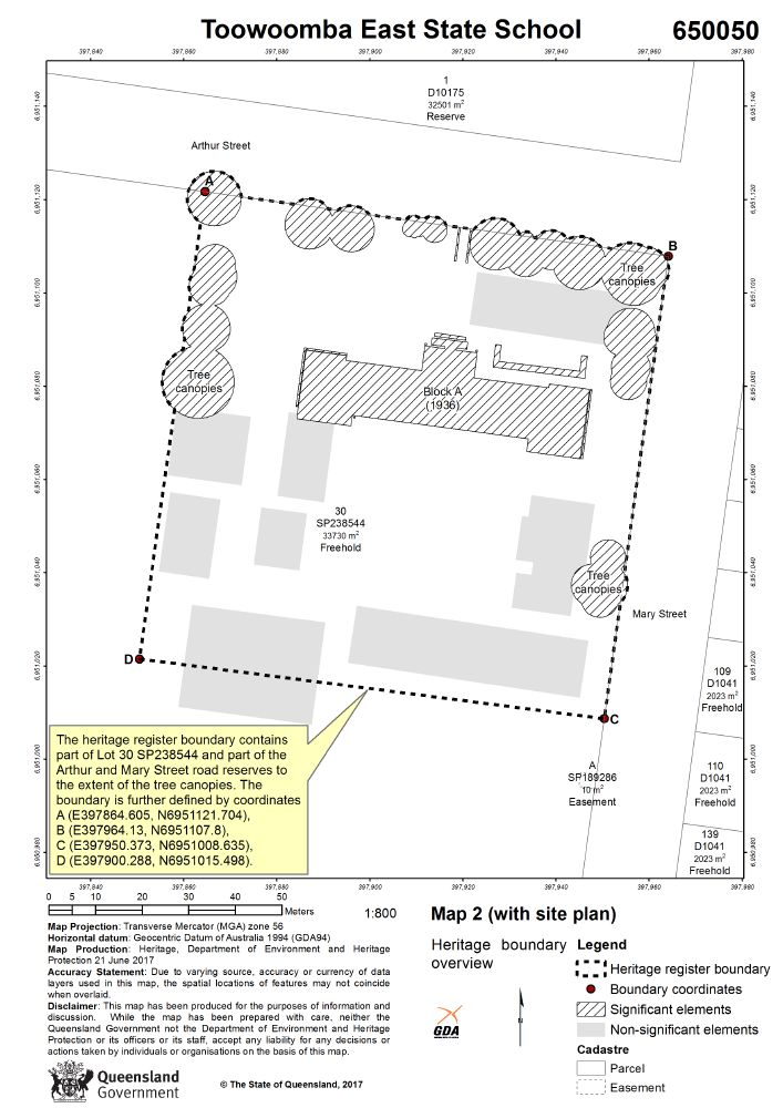 650050 - Toowoomba East State School - map 2 (2017)